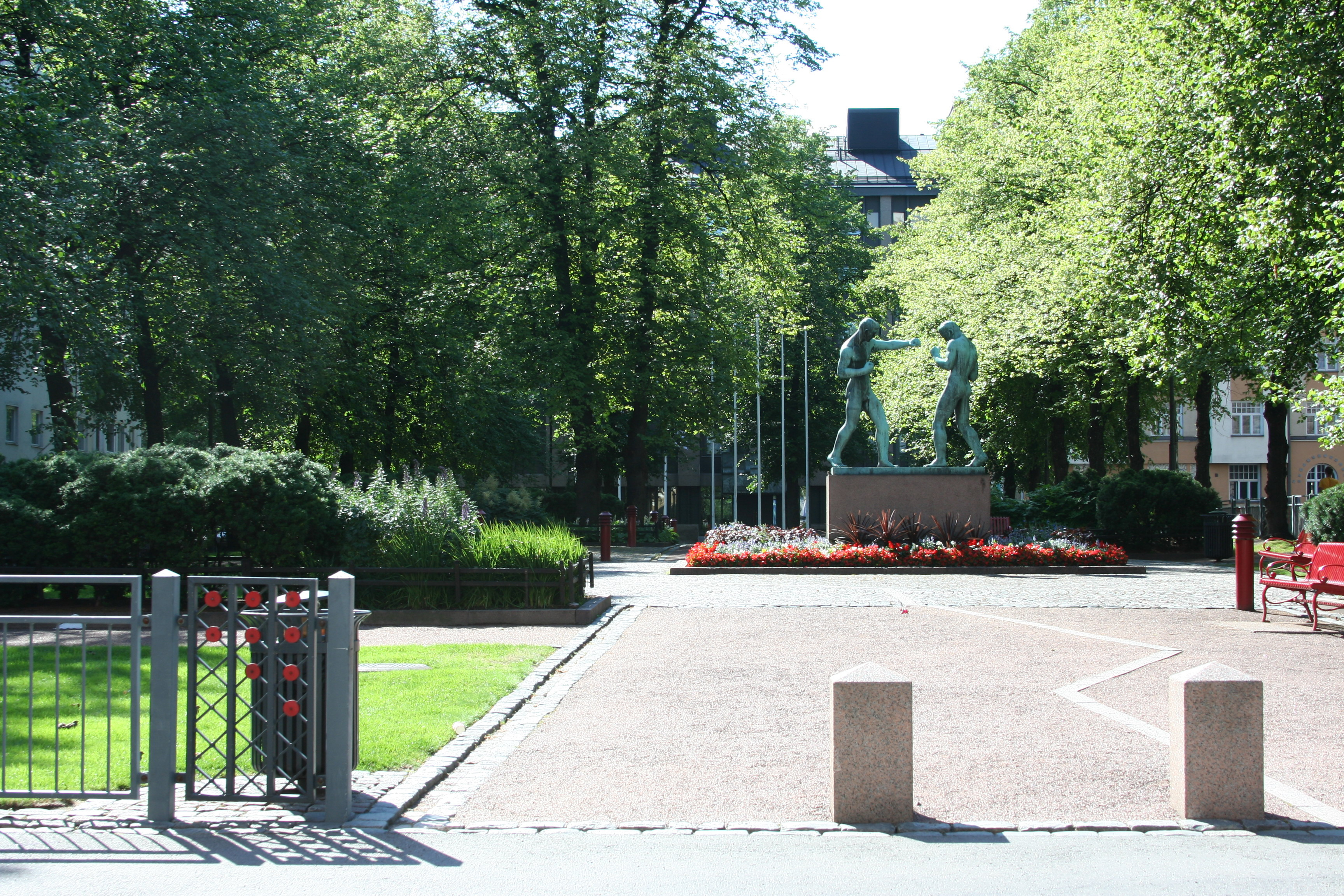 Paasivuori park, Siltasaari, Helsinki, Finland.